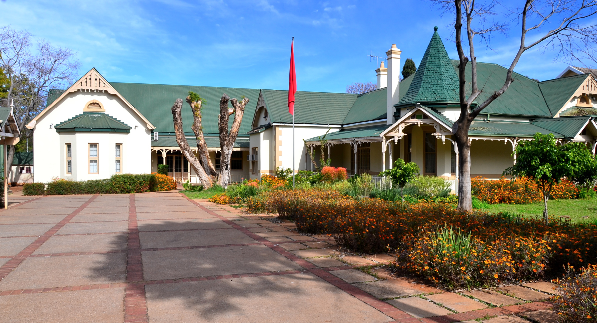 The building known as Leenhoff House, situated on Erf 443/R, Arcadia at 799 Schoeman Street. Placed on the Heritage Register on February 18, 1994. SAHRA ID: 9/2/258/0036